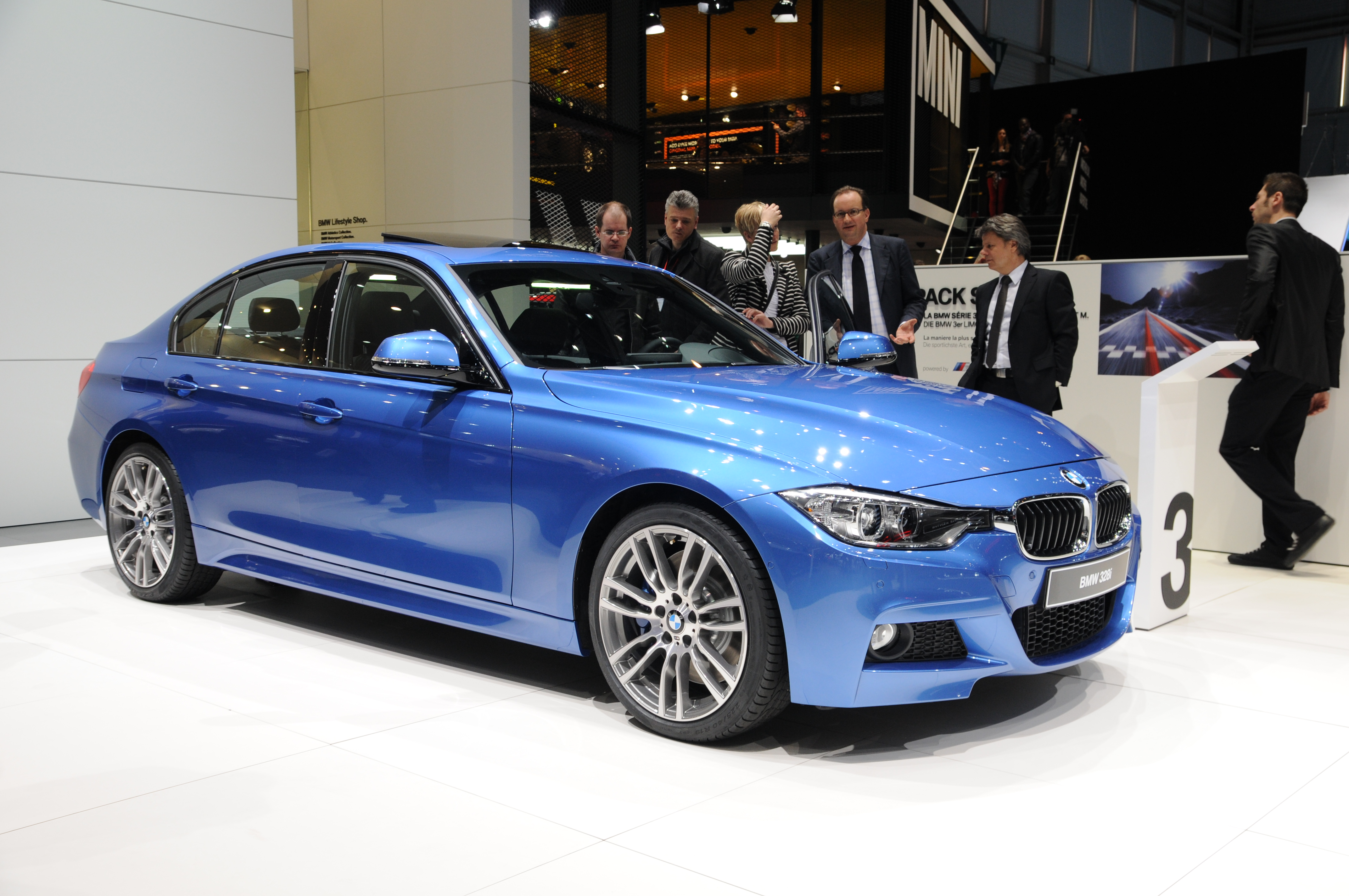 Geneva Motor Show 2012 (photos taken on the second press day)